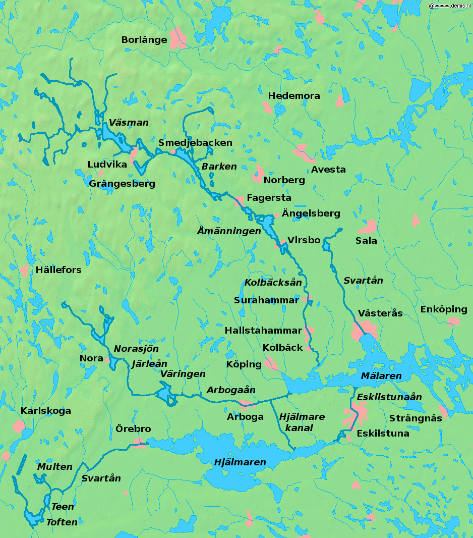 Map of lakes and rivers in south central Sweden, the Bergslagen region. Bounding box West 14.4°, South 59°, East 17.2°, North 60.6°. Center at 59°48′00″N 15°48′00″E / 59.80000°N 15.80000°E.